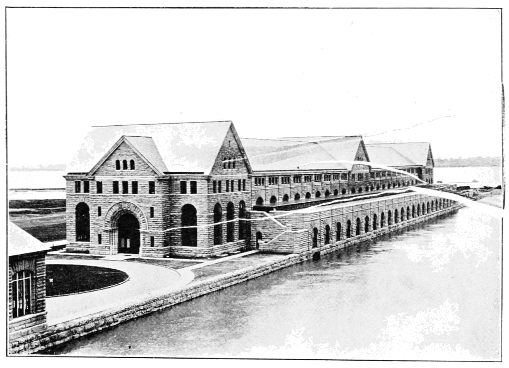 Powerhouse No 2 of the Niagara Power Company USA